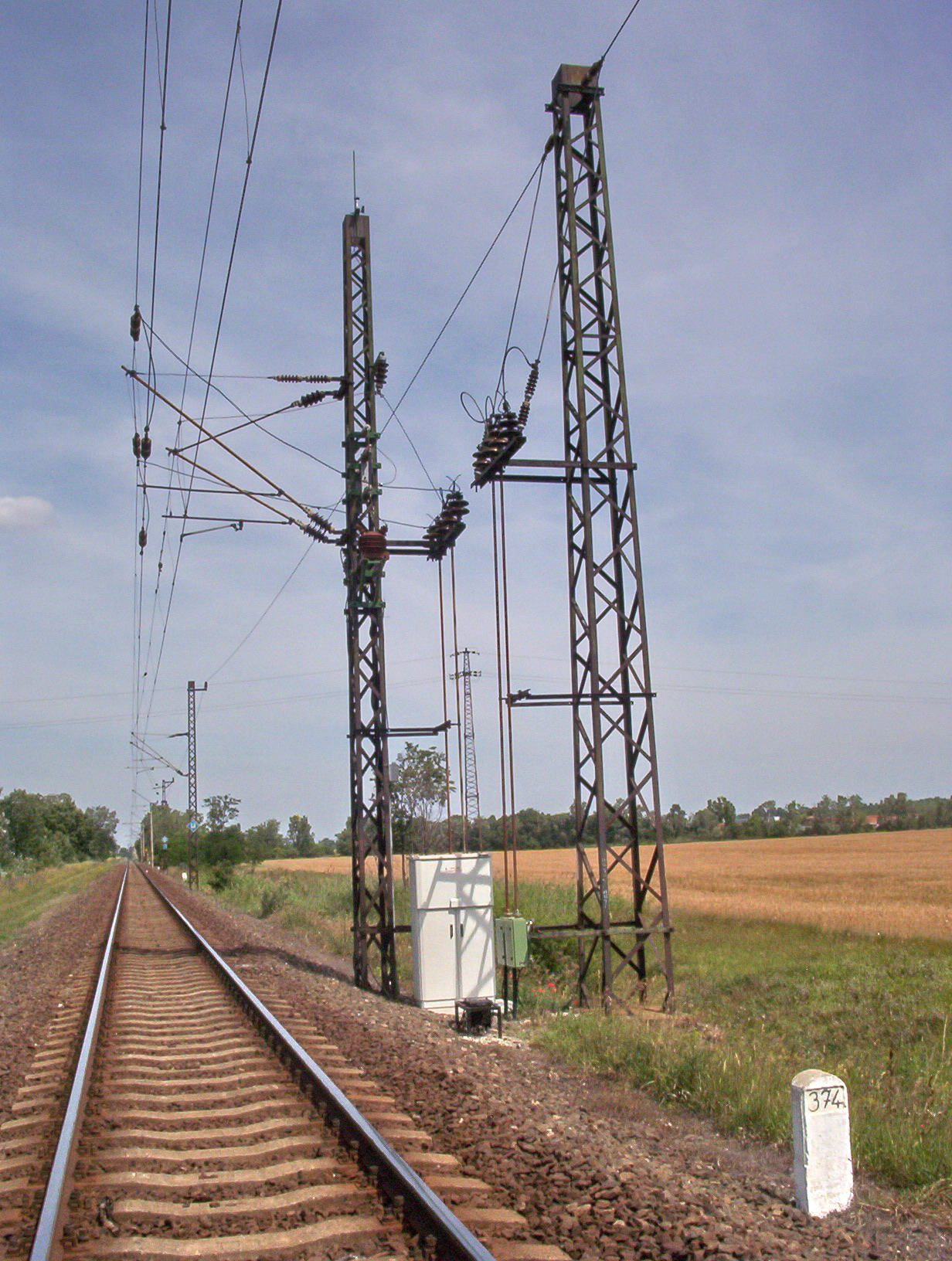 Phase-bound on the Budapest–Kelebia railway line between Kiskunlacháza and Dömsöd stations, Hungary. (25kV, 50Hz)